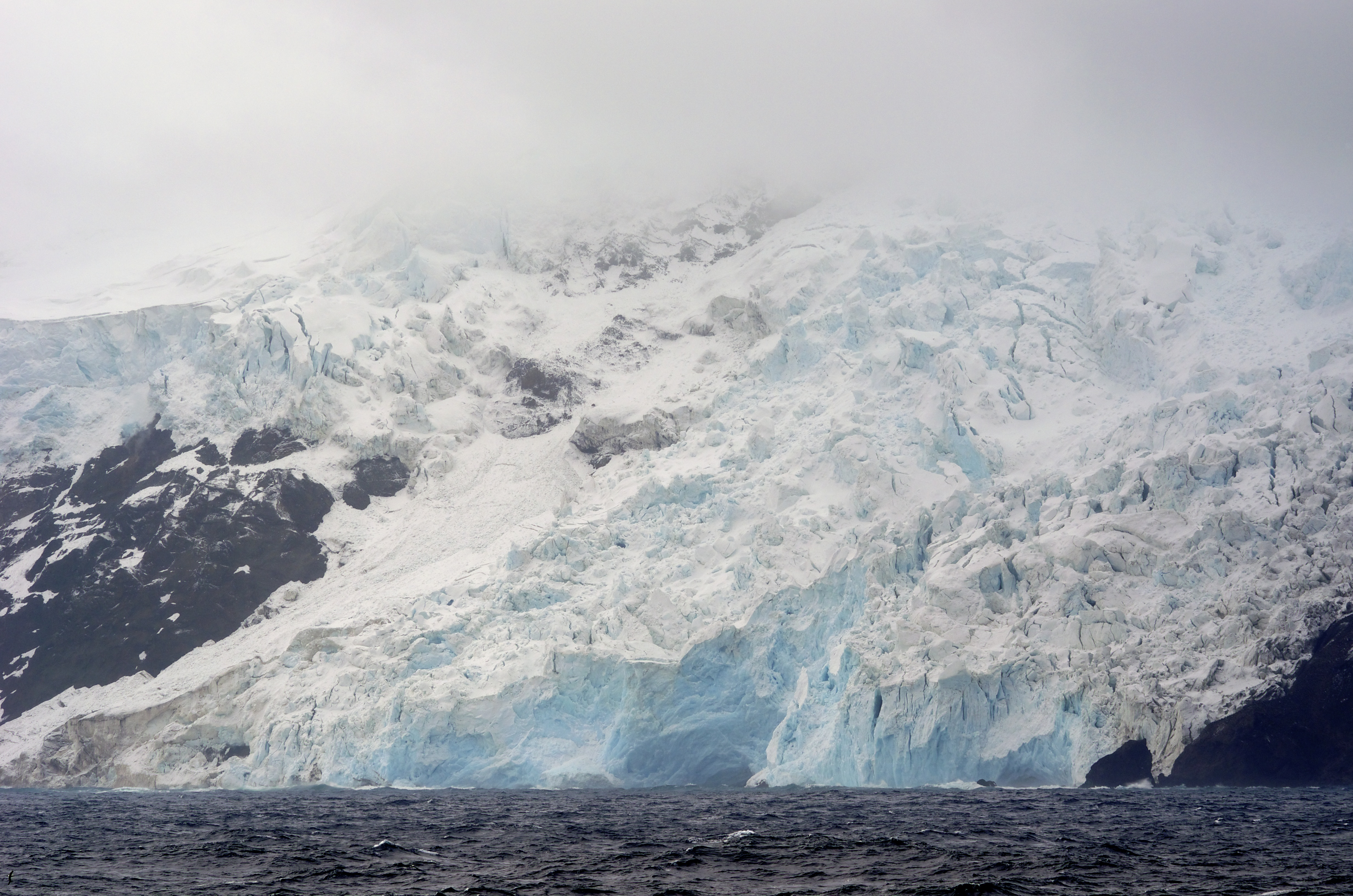 Bouvet Island west coast glacier as seen in December 2011 from the RRS Ernest Shackleton